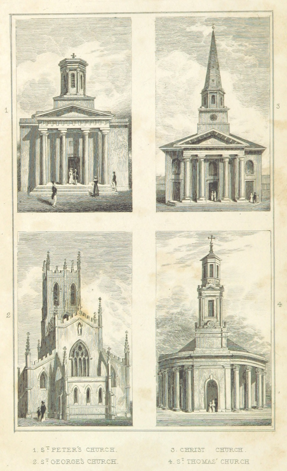 Four former parish churches in Birmingham, England: St Peter, St George (Hockley), Christ Church, St Thomas. St Peter: demolished 52°28′55″N 1°53′32″W / 52.4819°N 1.8923°W St George in the Fields (Hockley): demolished; now St Georges Park 52°29′27″N 1°54′17″W / 52.4909°N 1.9048°W Christ Church: demolished 1899; now Victoria Square 52°28′47″N 1°54′09″W / 52.4797°N 1.9025°W St Thomas: damaged in World War II; tower and west front retained as part of St Thomas's Peace Garden52°28′24″N 1°54′23″W / 52.4732°N 1.9063°W